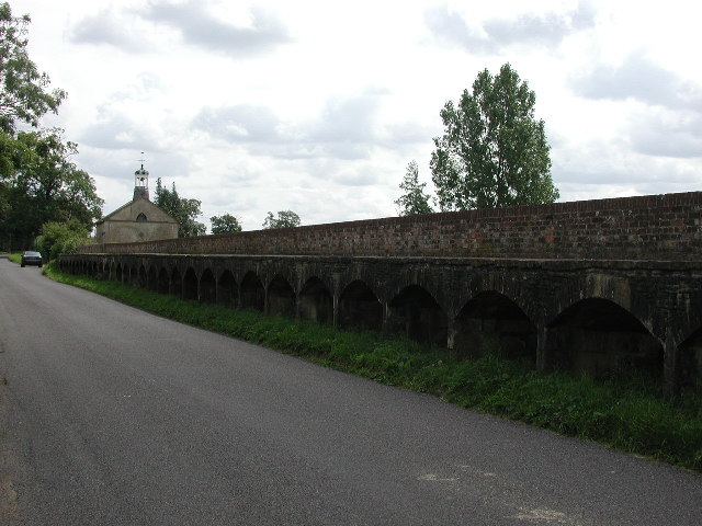 Maud Heath's Causeway in Chippenham, Wilts, UK.